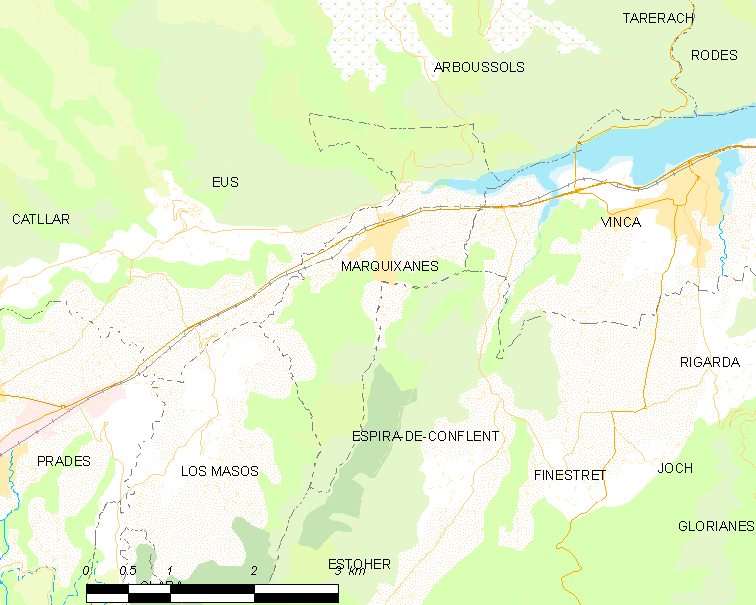 Map of French municipality